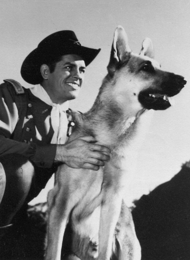 Photo of James Brown as Rip Masters and Rin Tin Tin from a postcard Brown sent to a fan of the television show.